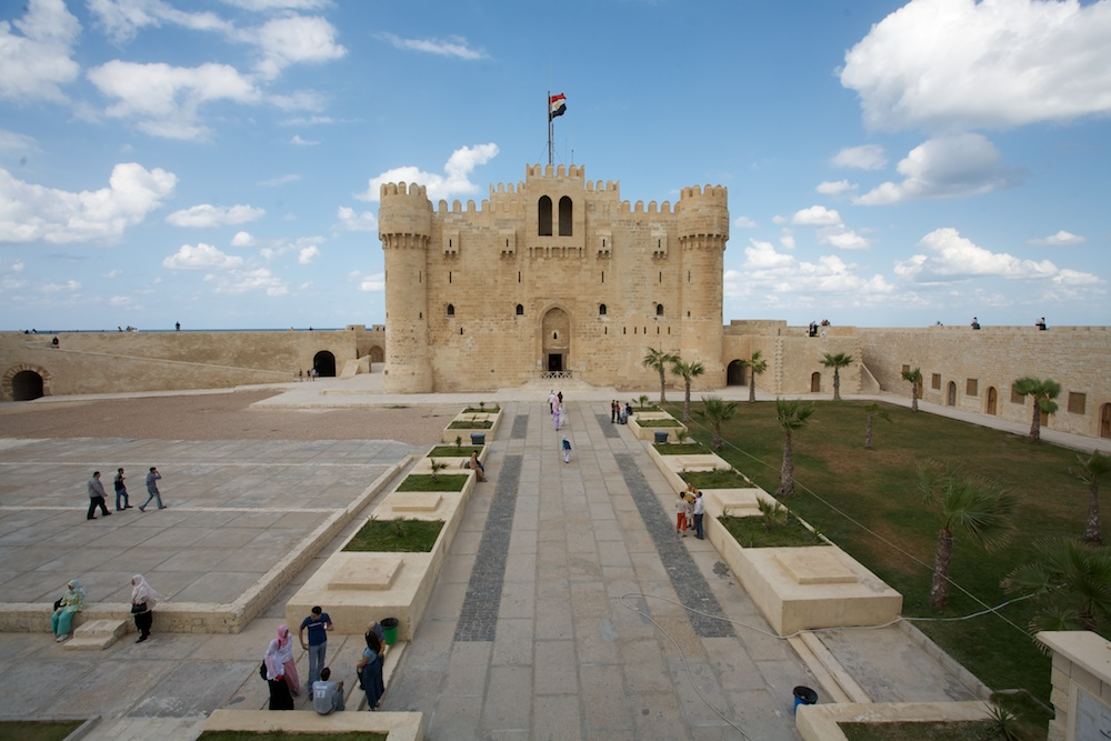 The Front of Citadel Qaitbay, from the wall above the entrance.